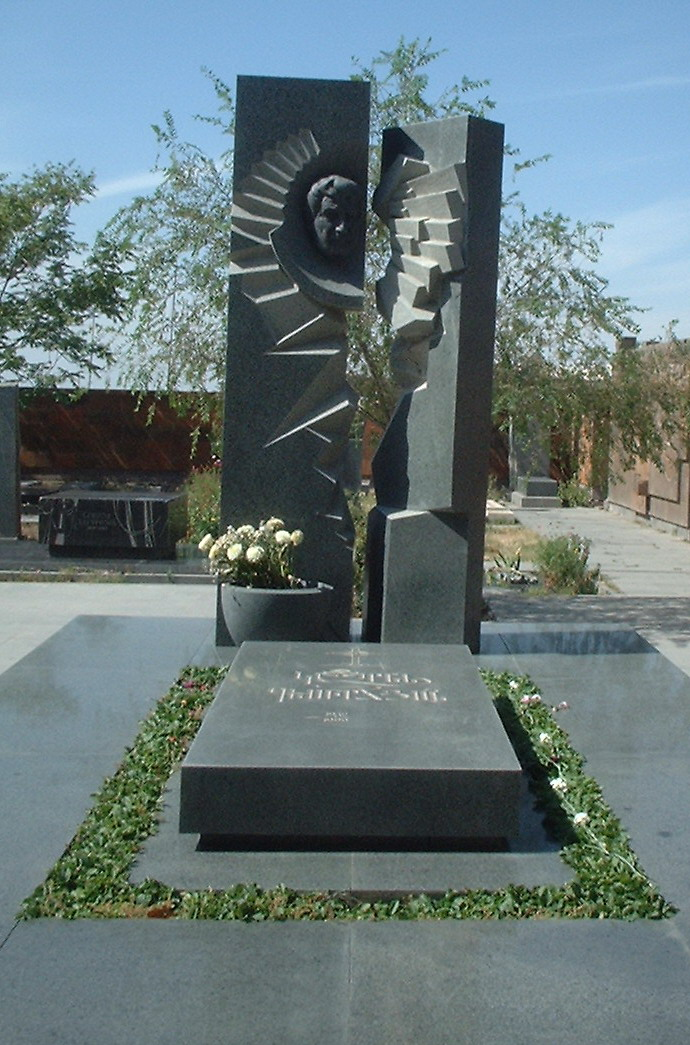 Demirvhyan in pantheon